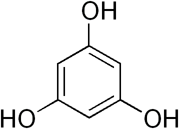 chemical structure of phloroglucinol